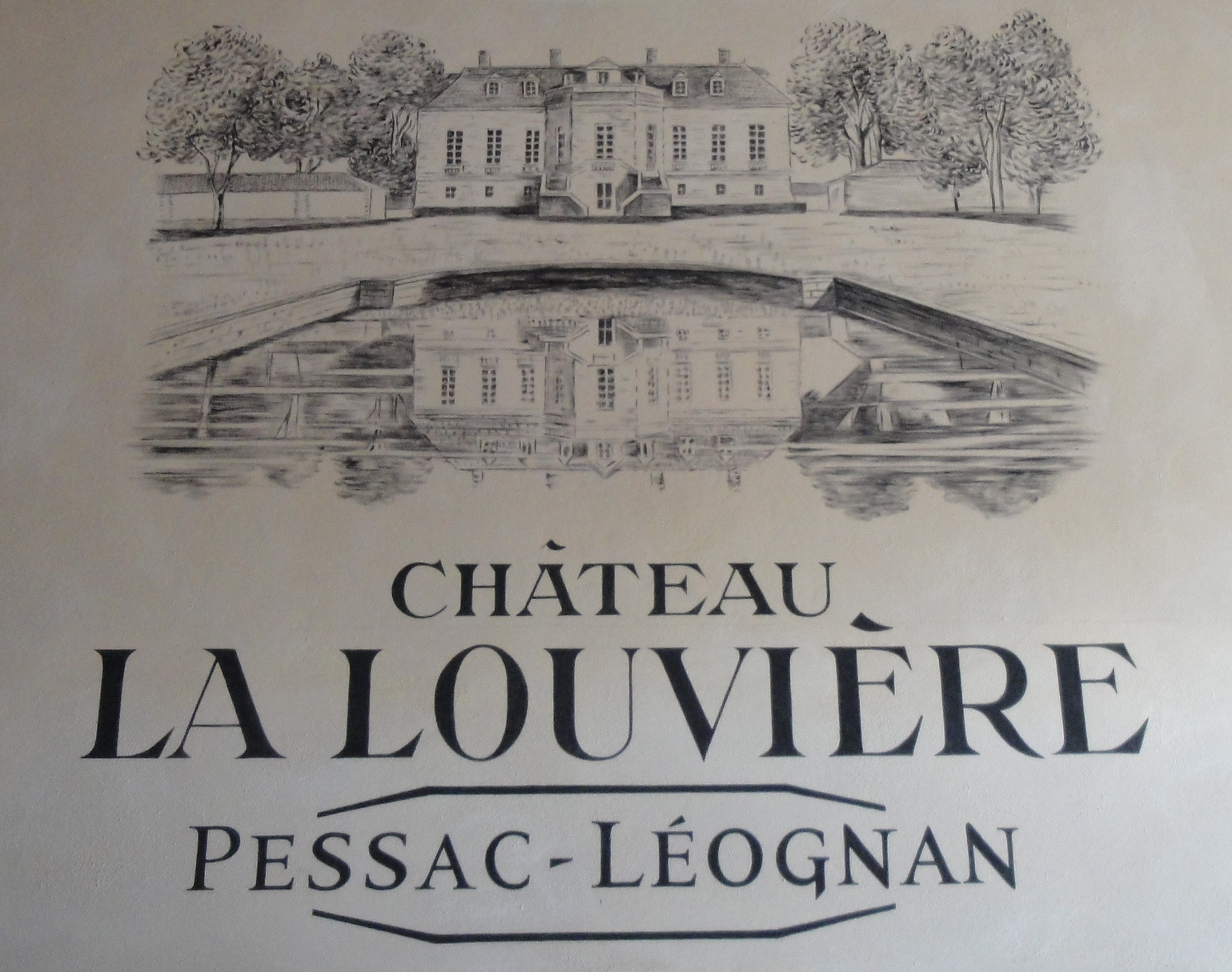 Mural at the entrace of the cellar of Château La Louvière, similar artwork to that used on their wine labels